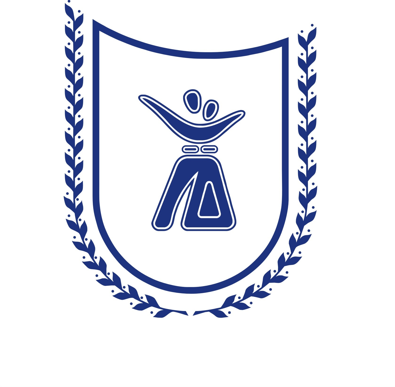 Logo of the Festival of folklore, singing and musical ensembles "Tancuj, tancuj ..." Srpski (latinica): Logo Festivala folklornih, pevačkih i muzičkih ansambala „Tancuj, tancuj...“